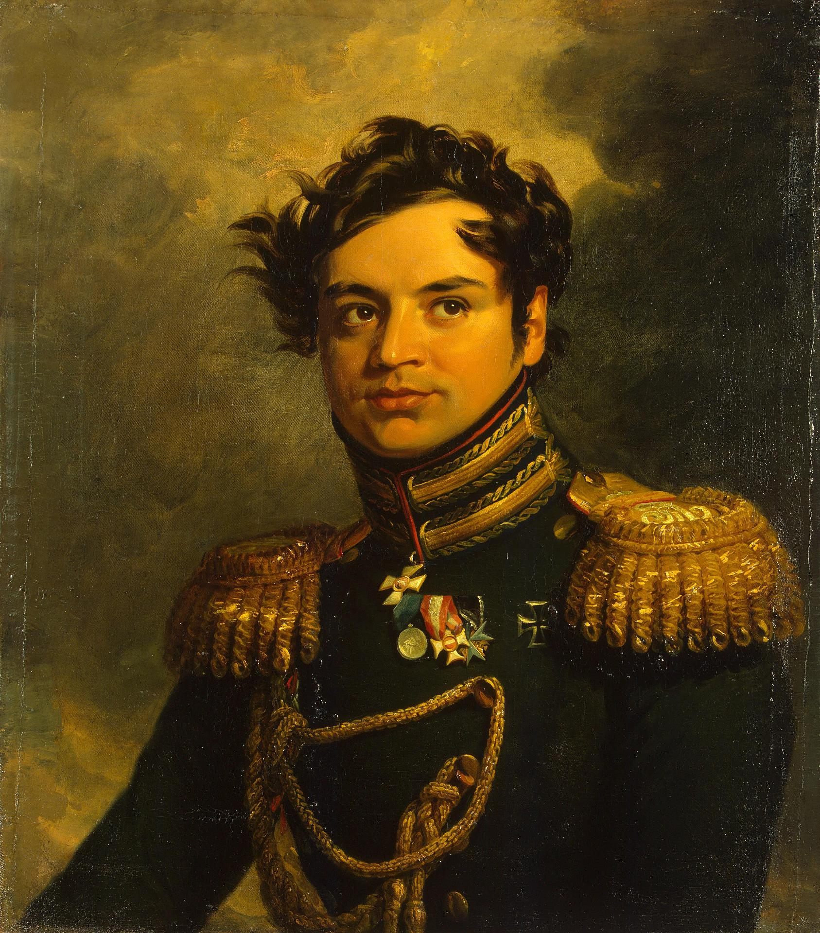 Yakov Alexeevich Potyomkin (16.10.1781 – 01.02.1831) russian general